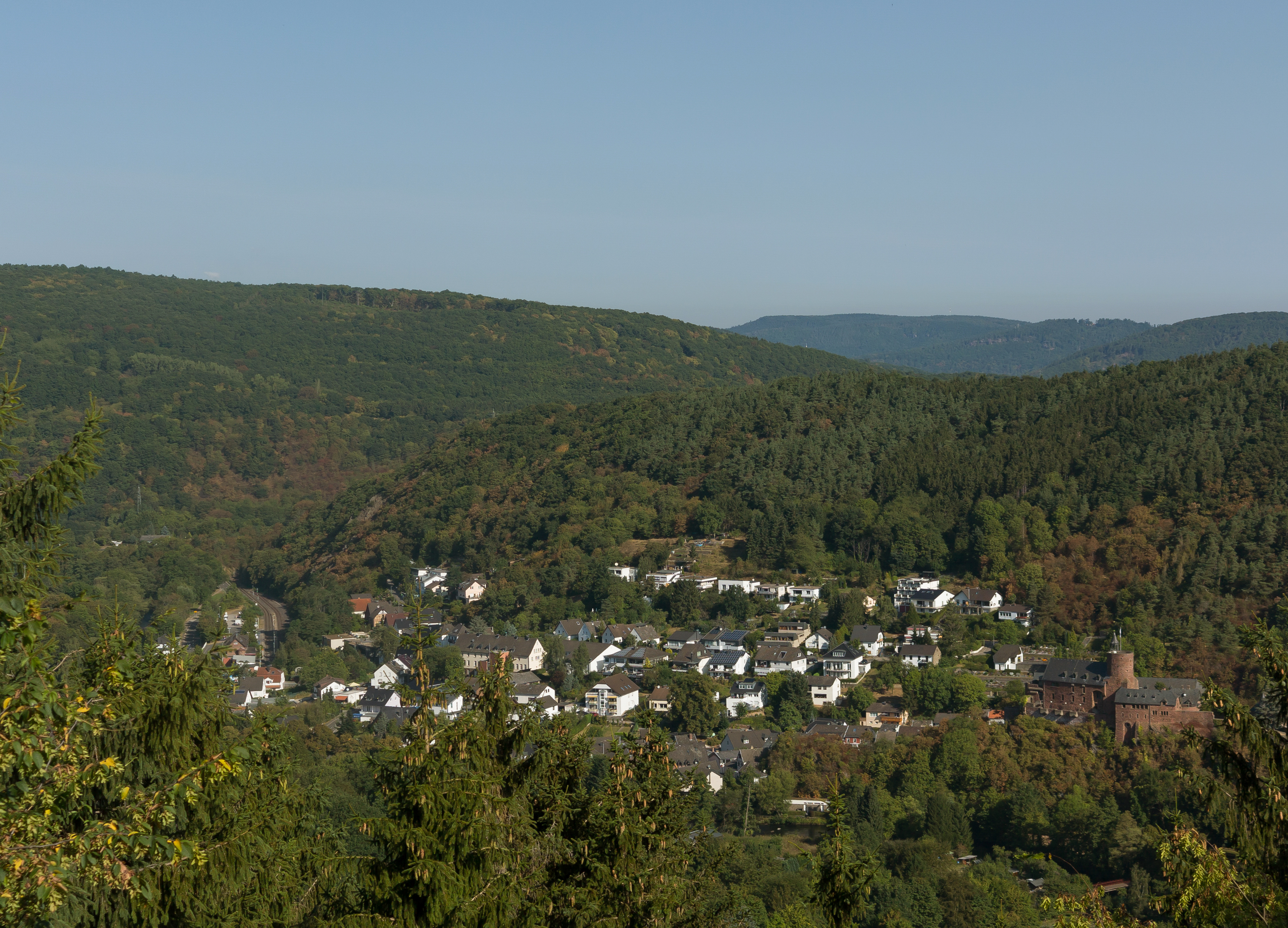 Heimbach, view to the town from Henriette Platz